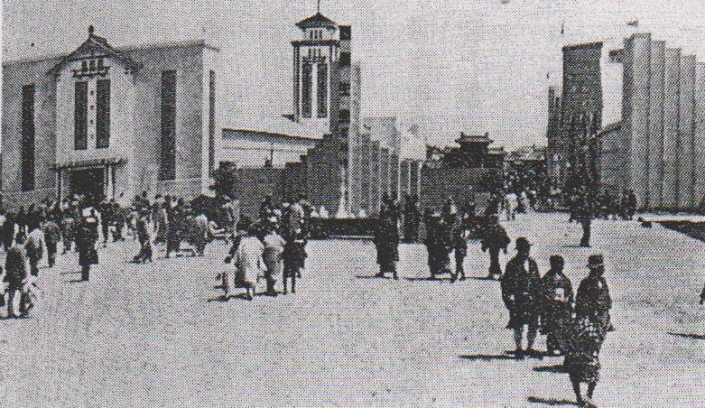 This is a scene of Yokkaichi Grater Expo or Kokusan Shinko Yokkaichi Dai Hakurankai in 1936.